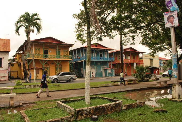 Colourful houses in Colón